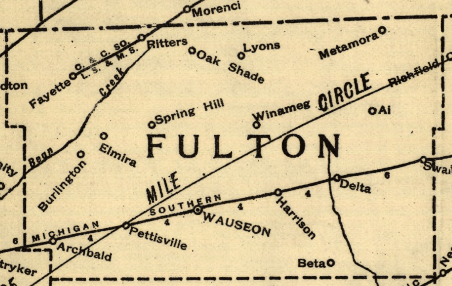 excerpt of fulton county in 1890 railroad map of ohio